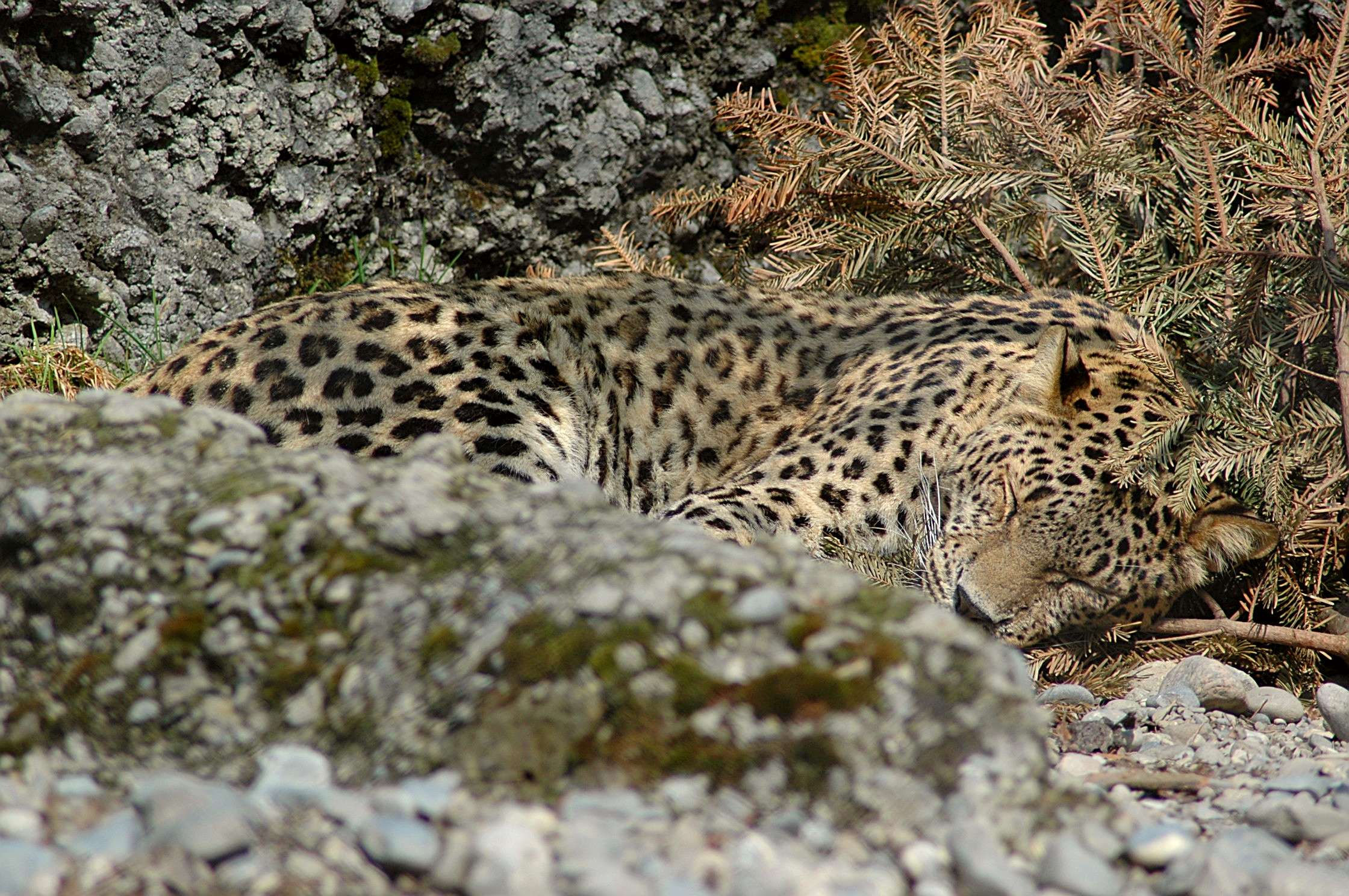 Persian Leopard